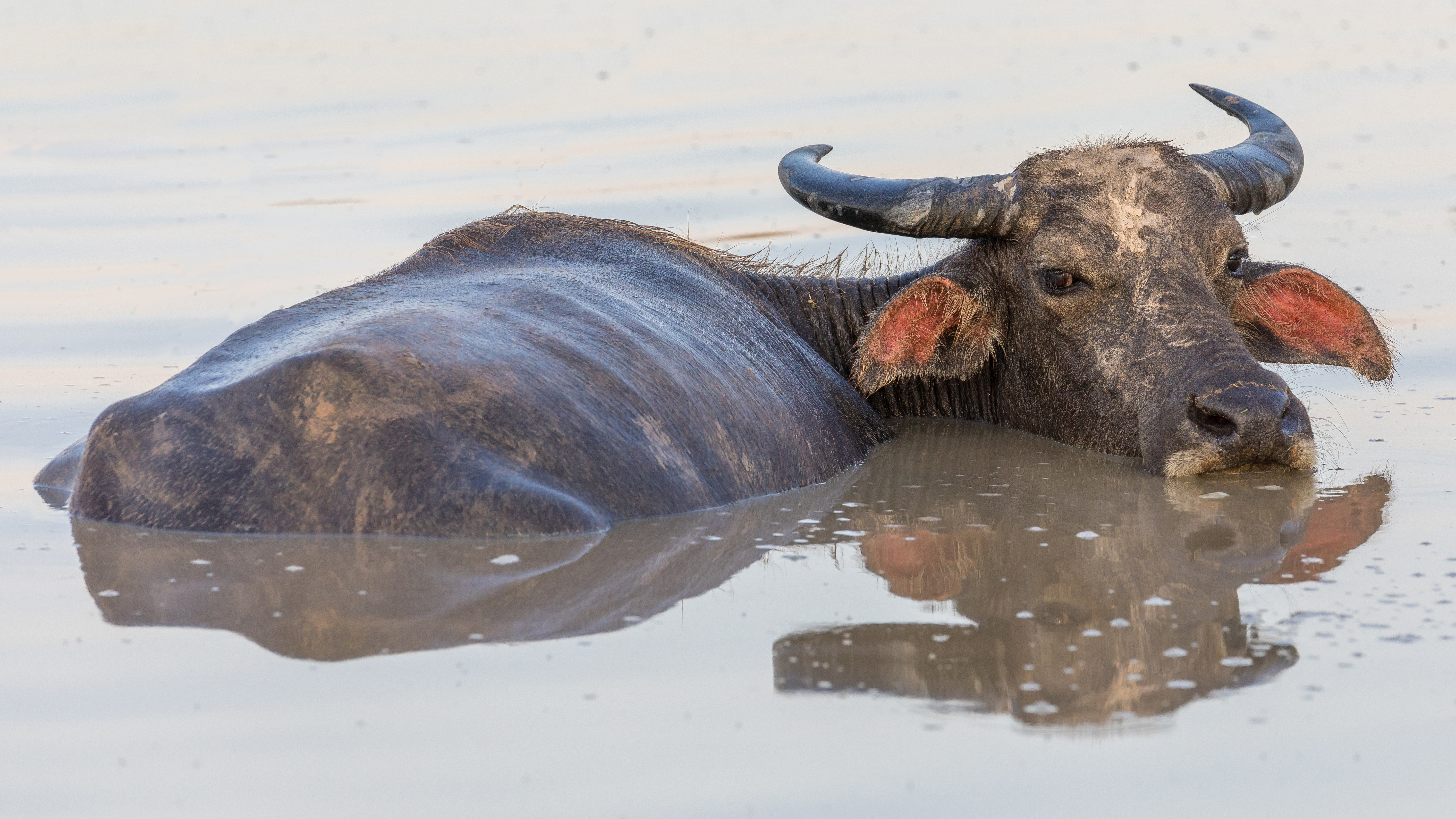 Mirror reflection of a water buffalo (Bubalus bubalis) bathing in a pond on the island of Don Det (Si Phan Don, Laos)